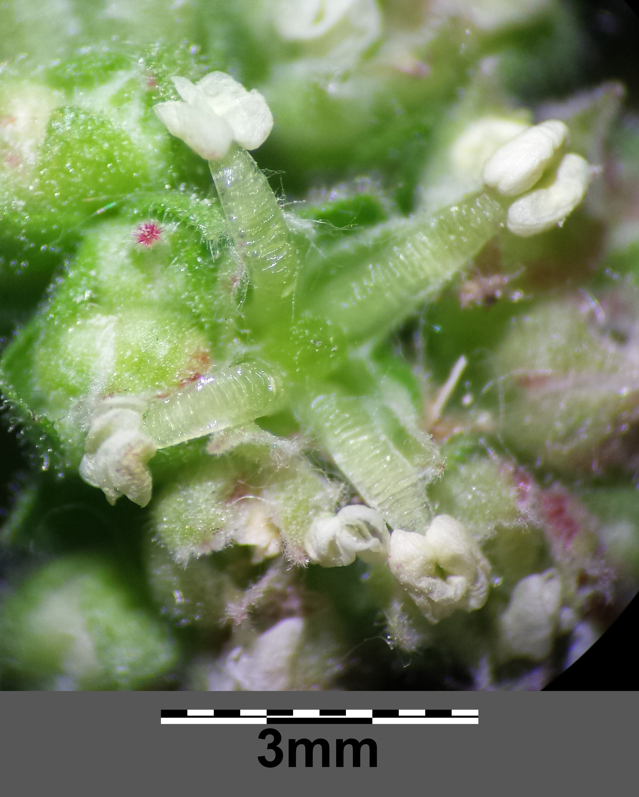 Habitus Taxonym: Parietaria officinalis ss Fischer et al. EfÖLS 2008 ISBN 978-3-85474-187-9 Location: Bruckhaufen, Vienna-Floridsdorf - ca. 160 m a.s.l. Habitat: border of a shrubbery